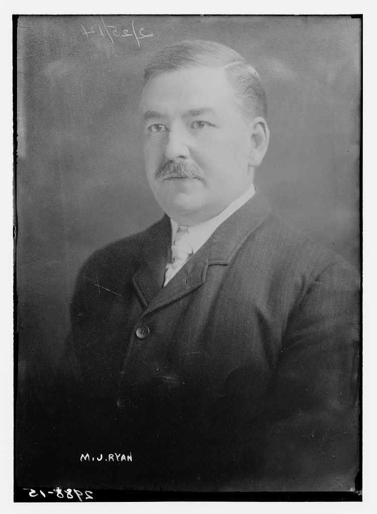 Michael J. Ryan, between ca. 1910 and ca. 1915], 1 negative : glass ; 5 x 7 in. or smaller. Notes: Title from unverified data provided by the Bain News Service on the negatives or caption cards. Forms part of: George Grantham Bain Collection (Library of Congress). Format: Glass negatives. Repository: Library of Congress, Prints and Photographs Division, Washington, D.C. 20540 USA, General information about the Bain Collection is available at Persistent URL: Call Number: LC-B2- 2988-15